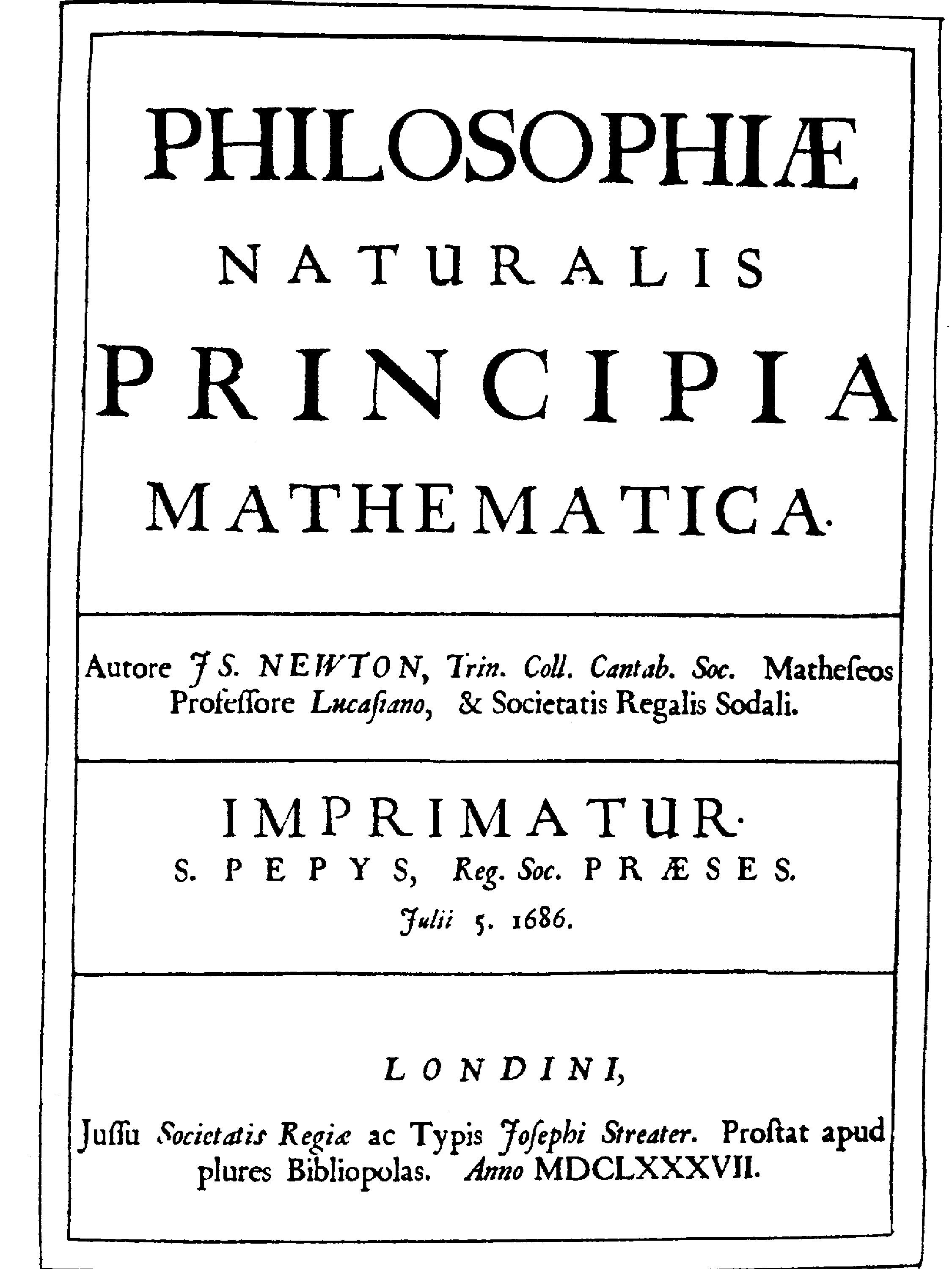 Title page of Newton's Principia Mathematica